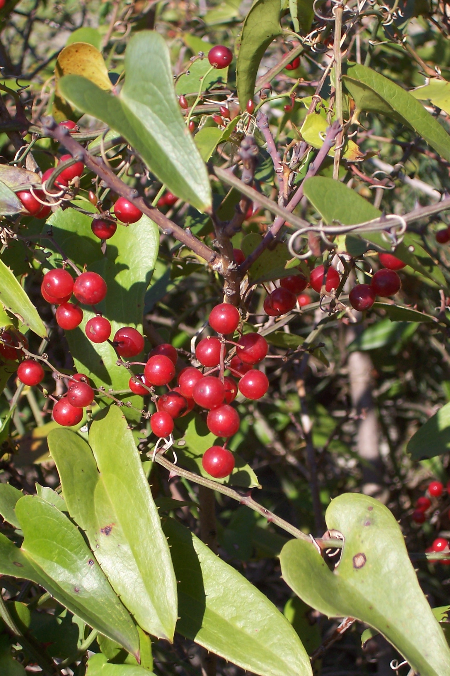 Smilax aspera, a mediterranean evergreen Liliacea; leaves and fruits are well visible.